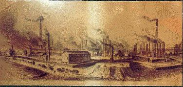 View of the Low Moor Ironworks, West Yorkshire, around 1855